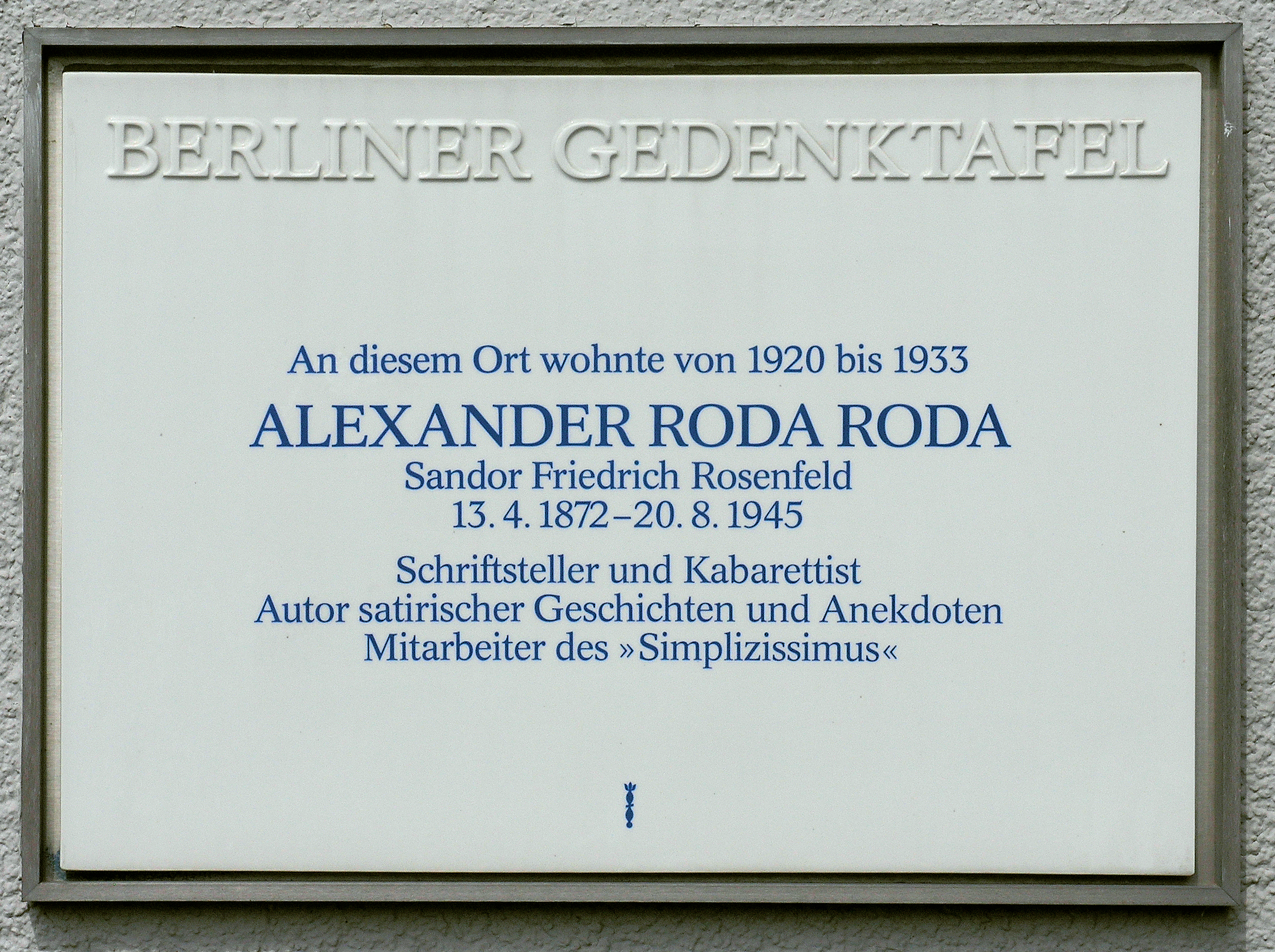 Berlin memorial plaque, Alexander Roda Roda, Innsbrucker Straße 44, Berlin-Schöneberg, Germany Koordinate:52°29′3″N 13°20′31″E / 52.48417°N 13.34194°E